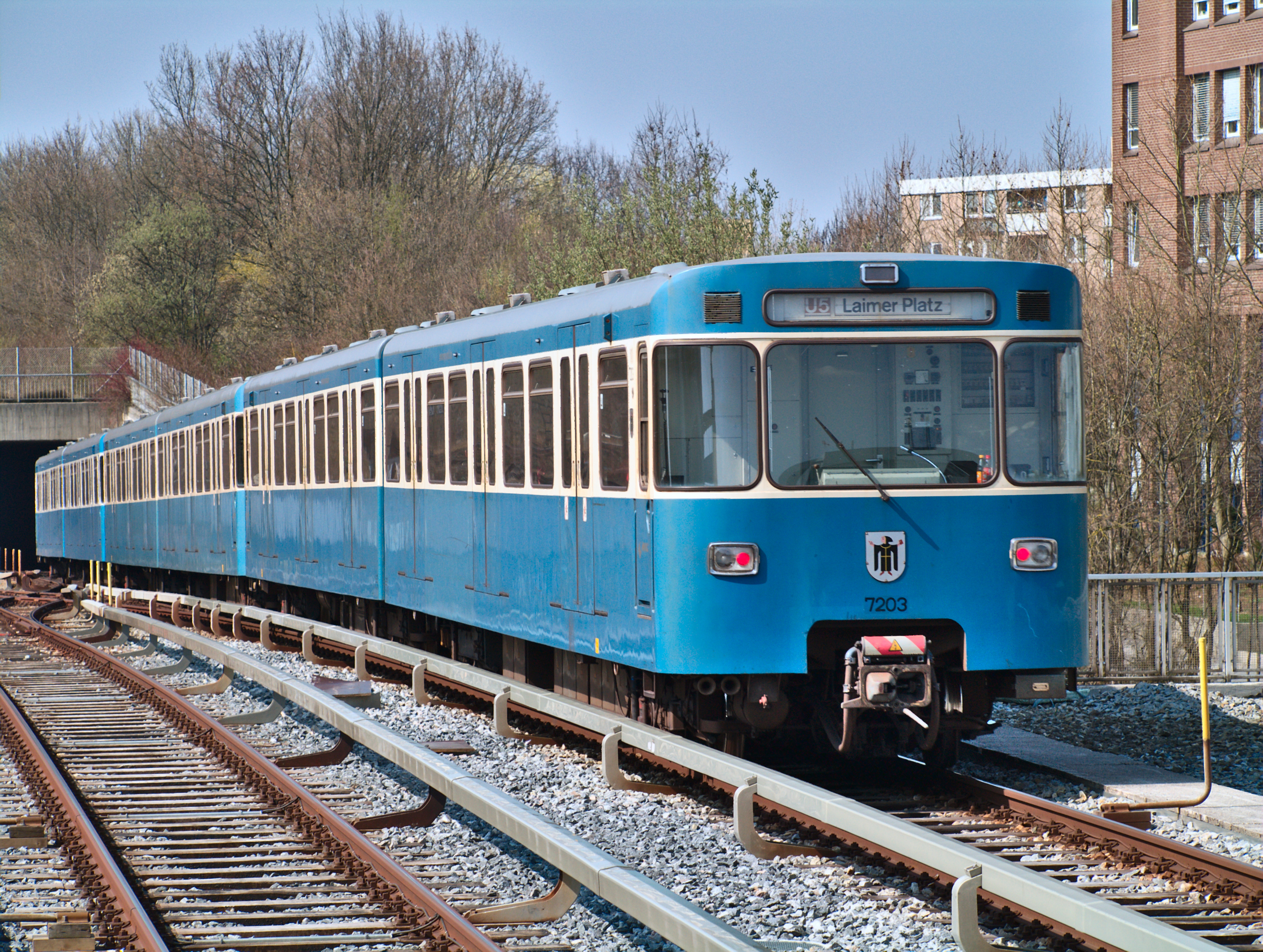 A six-car Class A2.3 train of Munich metro with #7203 at the rear is leaving Neuperlach Süd station on route U5 (Neuperlach Süd → Laimer Platz).